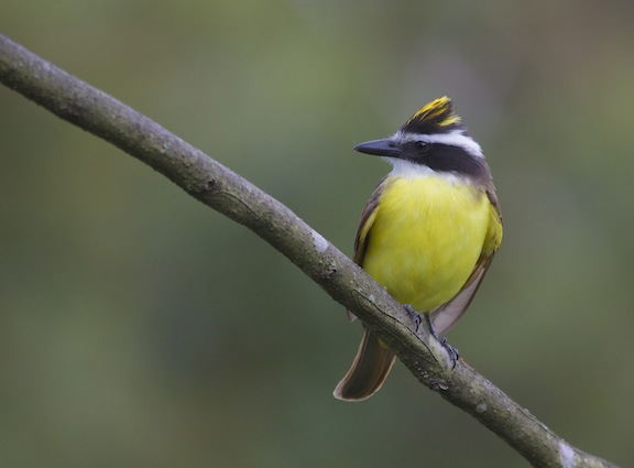 Taken from the Asa Wright Nature Centre veranda in Trinidad, the Great Kiskadee is the more common of the tyrant flycatchers in the area...